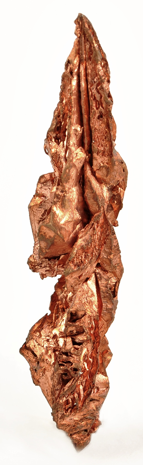 Copper Locality: Chino Mine (Santa Rita Pit; Santa Rita Mine), Santa Rita, Santa Rita District, Grant County, New Mexico, USA (Locality at ) Size: small cabinet, 6.1 x 1.3 x 1.2 cm Copper (spinel-twinned) From a famous find of 2006, this is a superb example of spinel-twinned copper crystals from a one-time erratic find. All came from a single large boulder found by Stan Esbenshade, and carefully trimmed out. This is, for the size , unusually thick - much more robust than most. Note the layer of secondary crystallization like wings along most of the central spinel twin. The clear spokes of the central twinned copper crystal provide several sharp flanges to give it added visual impact and size appeal. This was a onetime find, and now these are hard to find for sale today. This is a complete floater, terminated all around and formed in a spongy mass of strange copper float material.